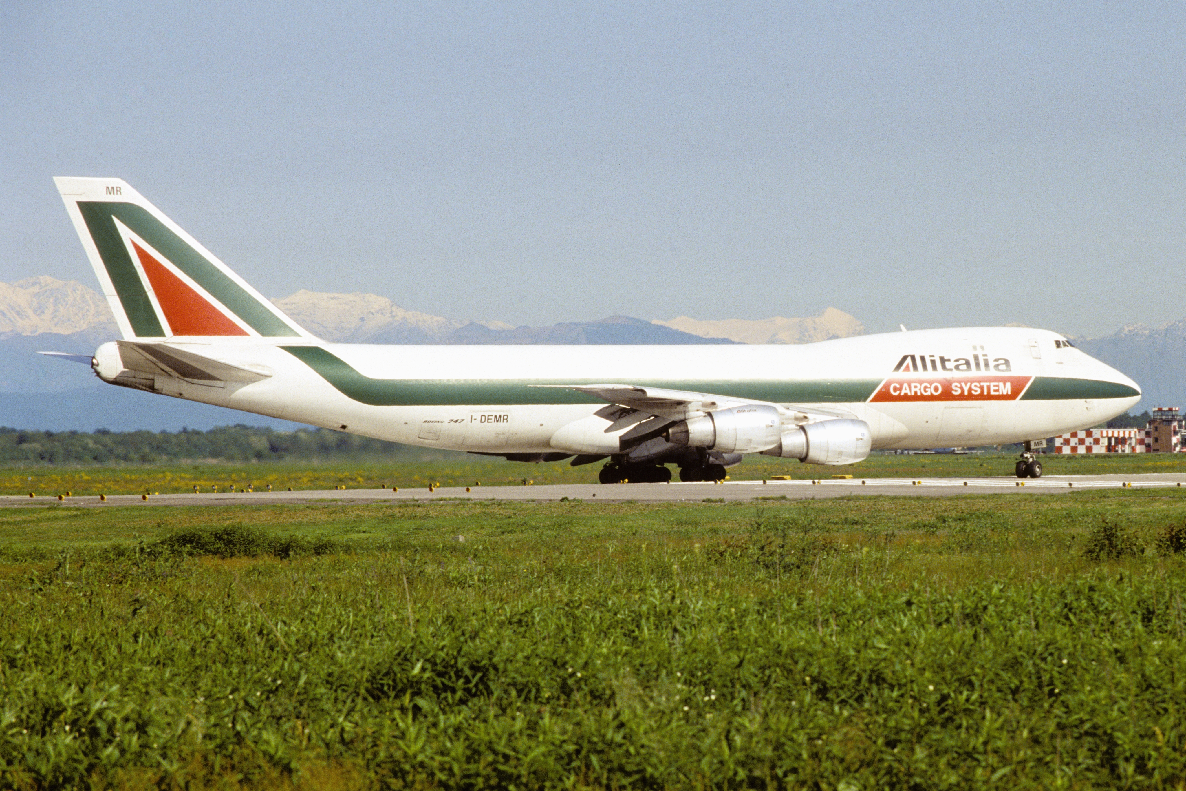 Old Pictures